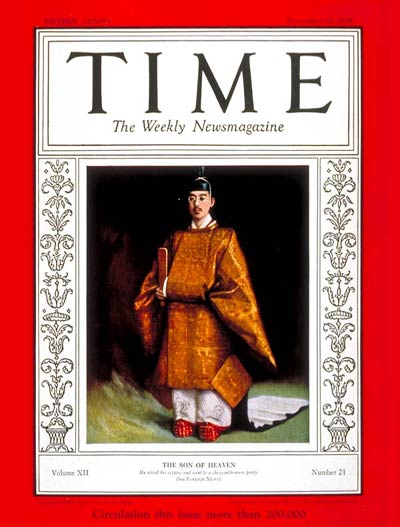 Hirohito on the Time Magazine Cover for November 19, 1928